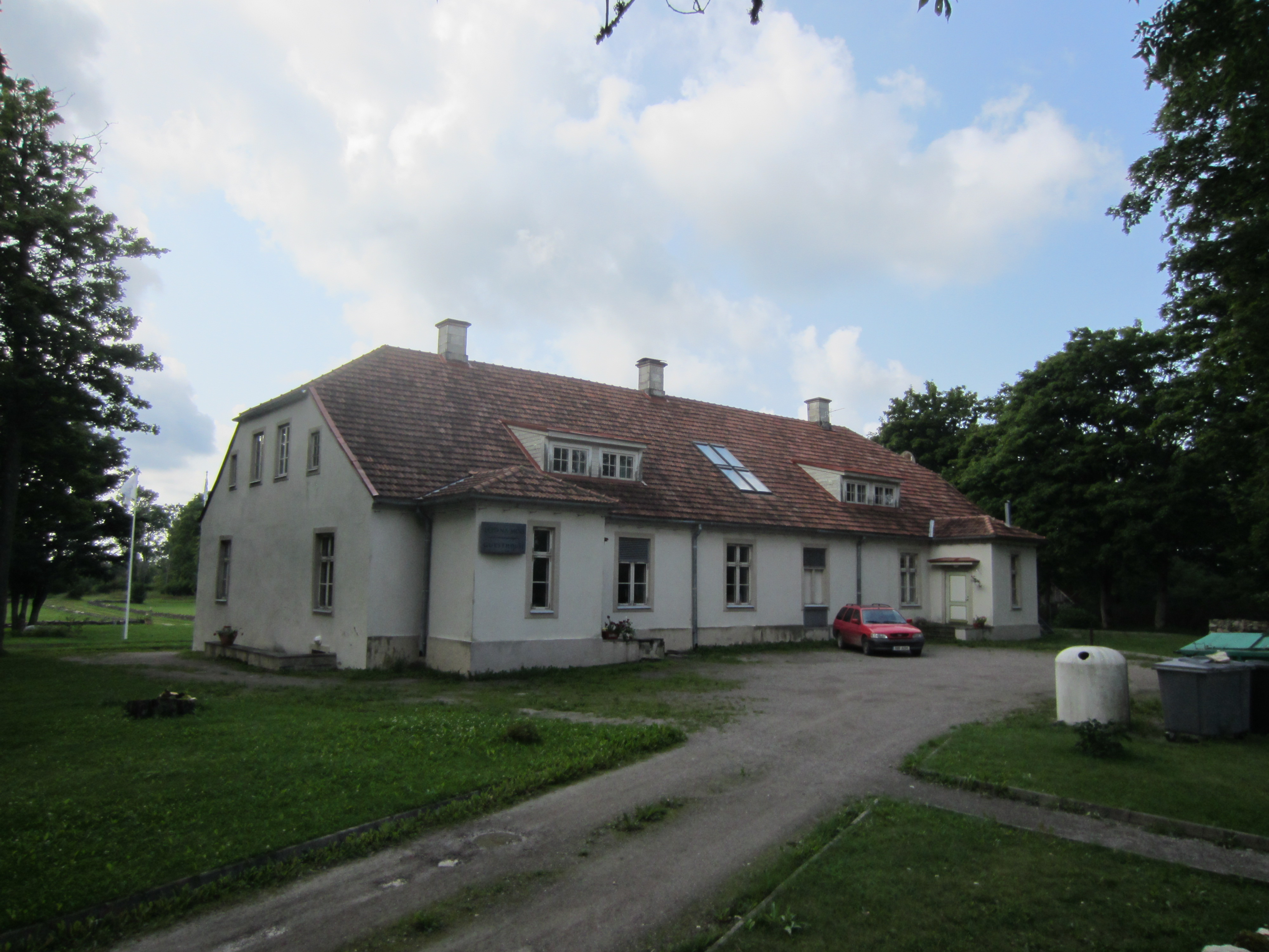 Loona manor, main building